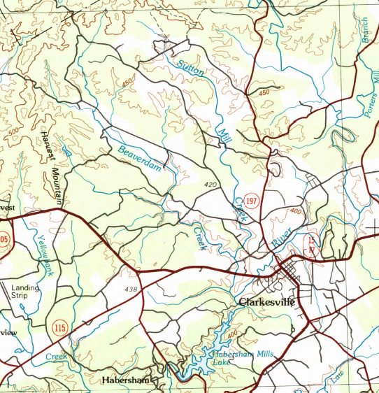 HUC 031300010204 topographical map, using the 1981 Toccoa 30x60 grid, showing Beaverdam Creek and the Soque River